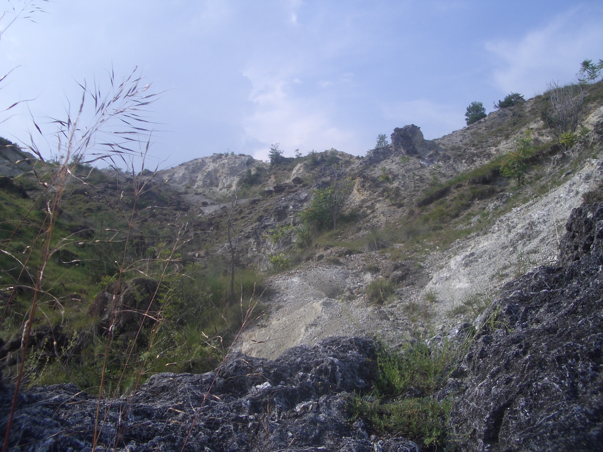 Baldissero Canavese, the tipical hills made of magnesite (popularly known as "Monti Pelati")